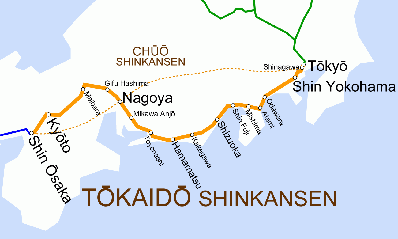 Map of Tōkaidō Shinkansen (English).